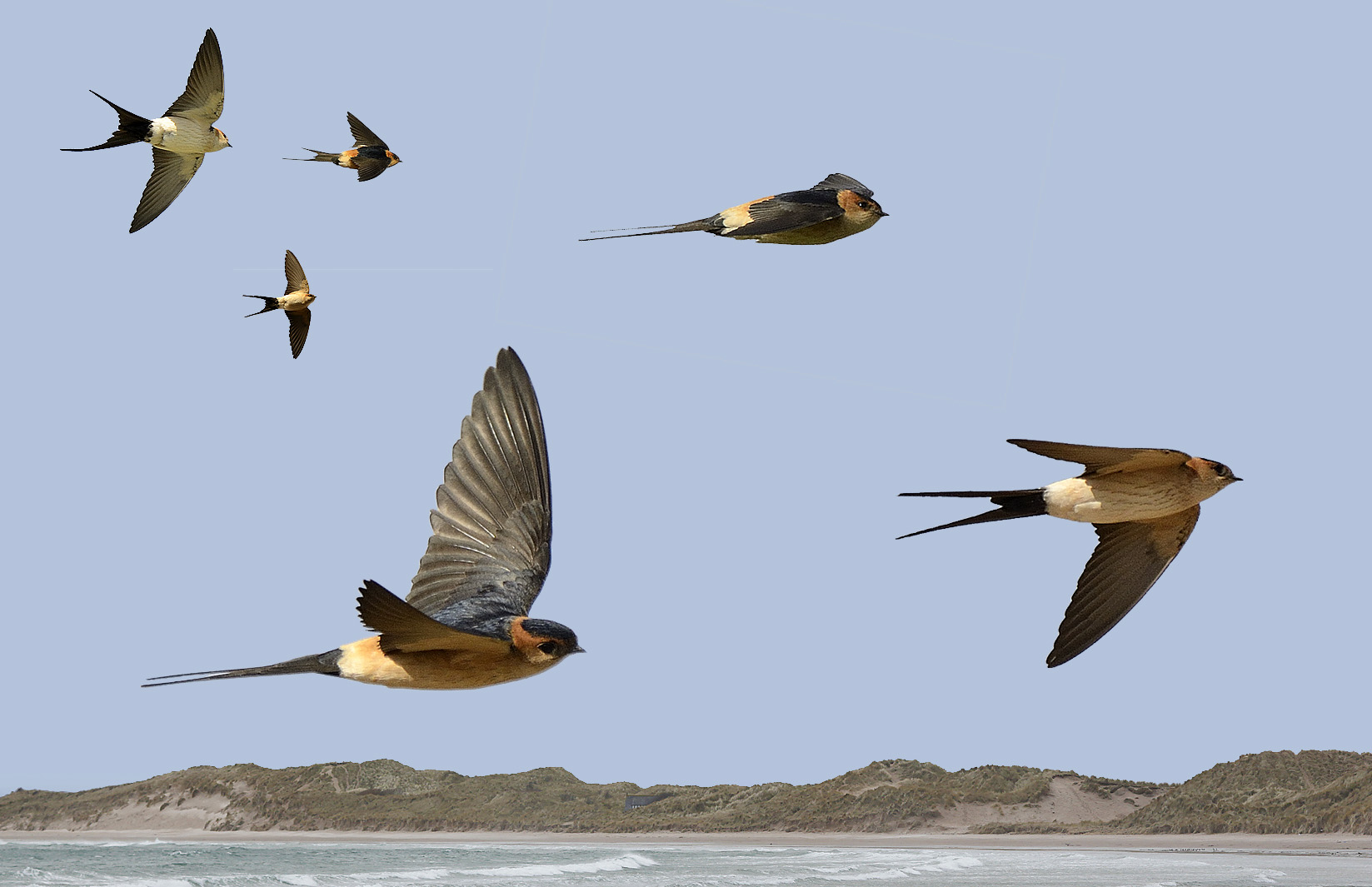 Red-rumped Swallow from the Crossley ID Guide Britain and Ireland